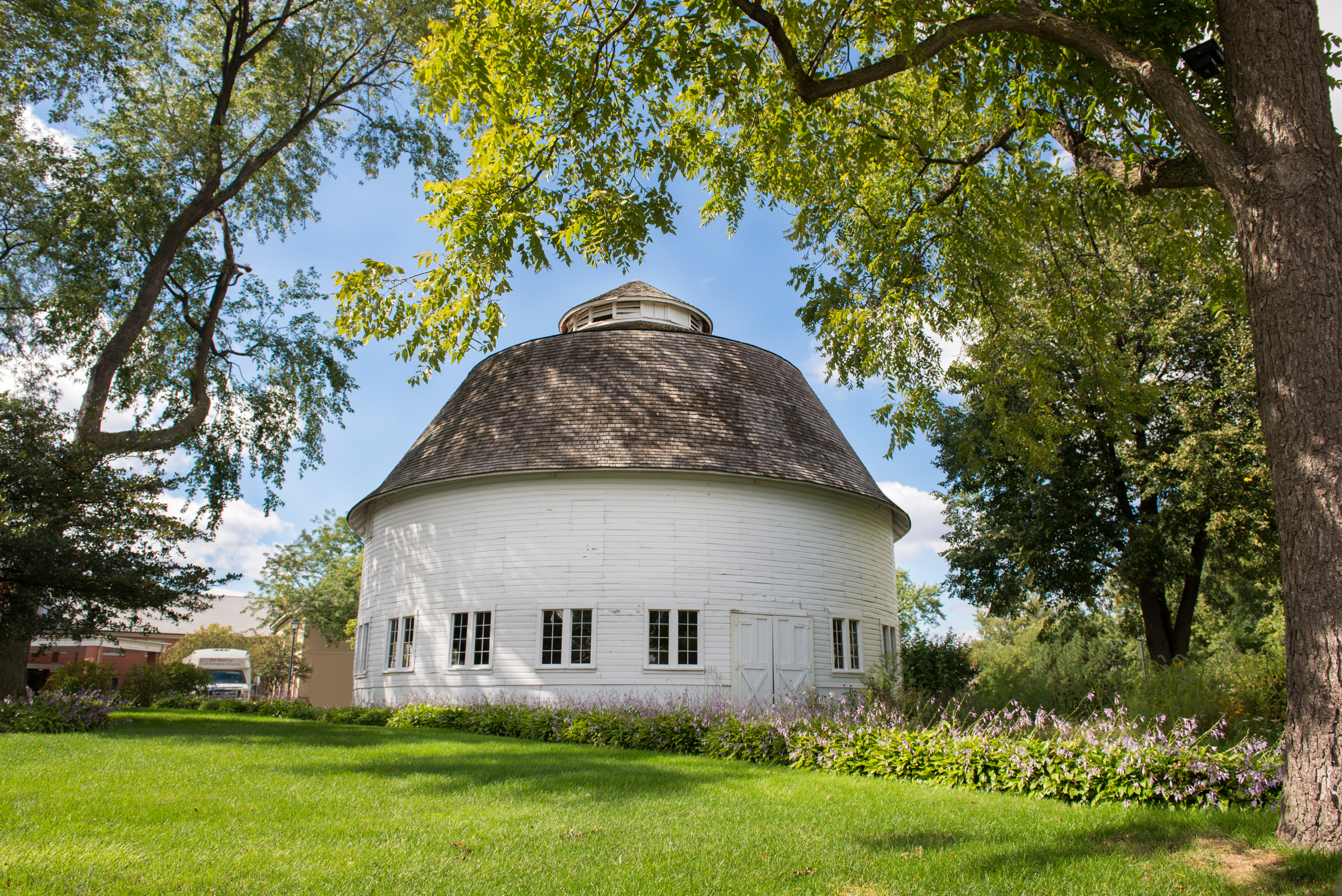 Wheeler-Magnus Round Barn, 811 E. Central Rd. Arlington Heights